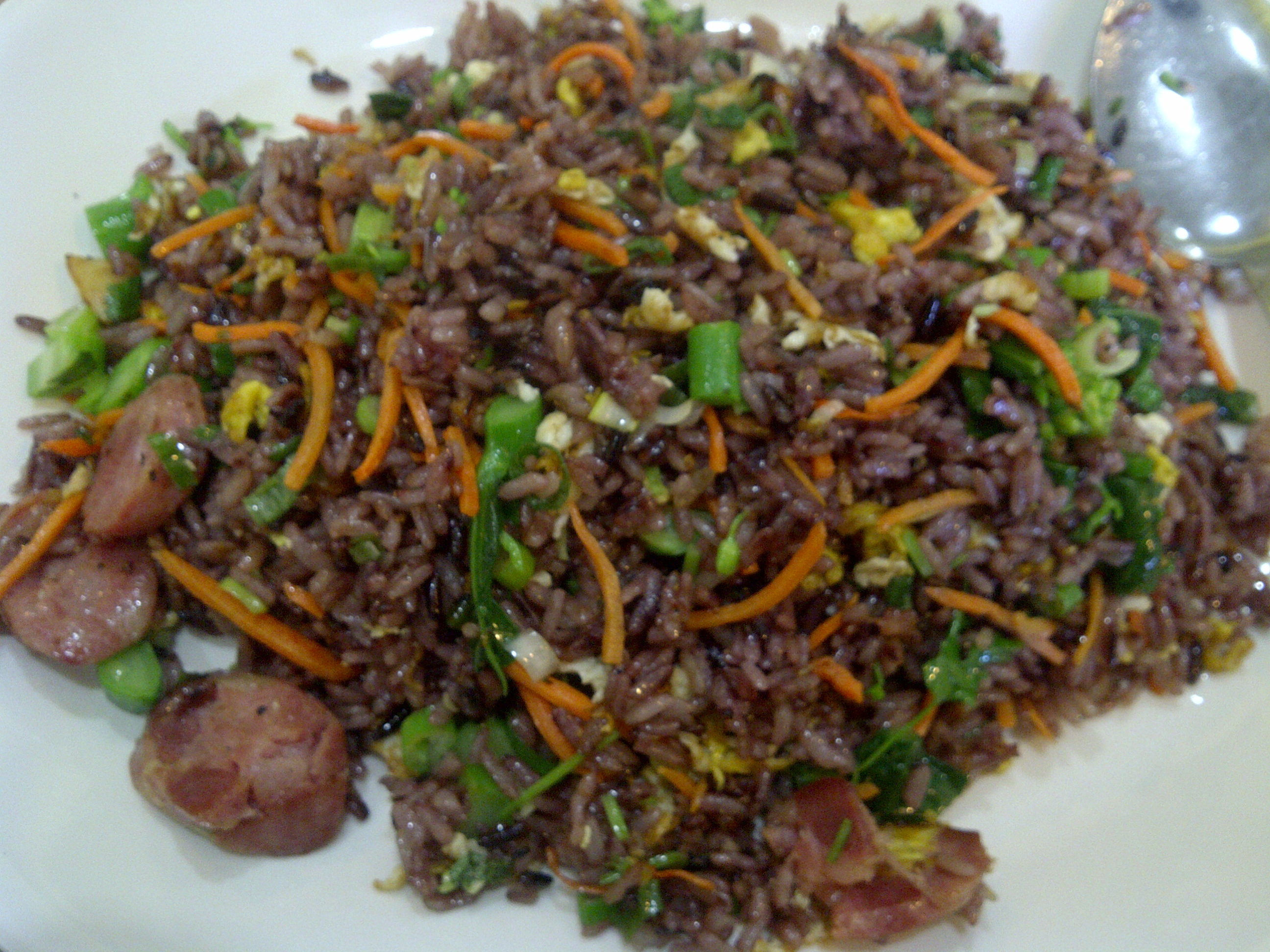 Taiwanese Fried Rice - Henry's Taiwan Seattle - Taken by Calvin Marquess